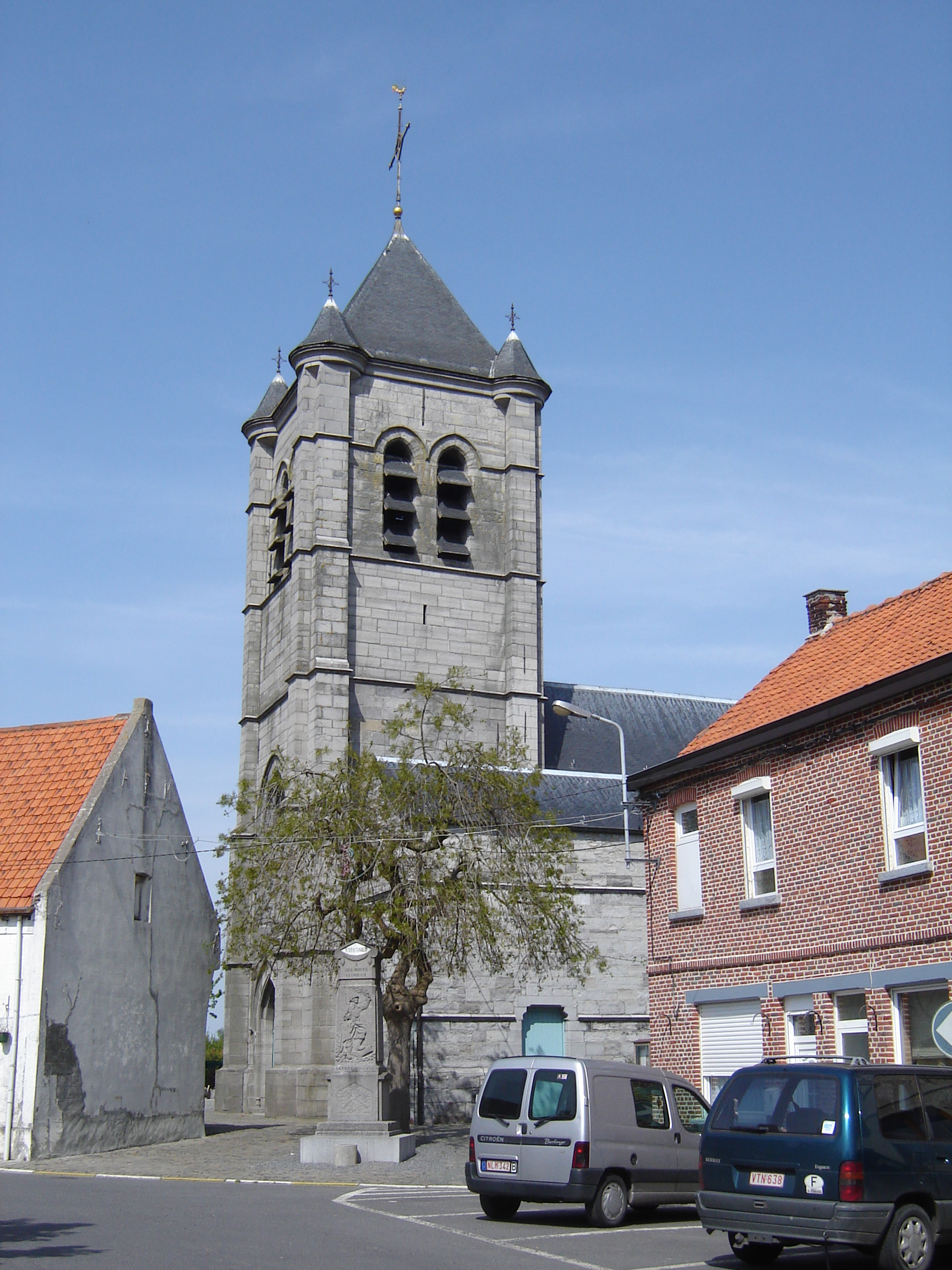 Church of Saint Vedast in Evregnies. Evregnies, Estaimpuis, Hainaut, Belgium